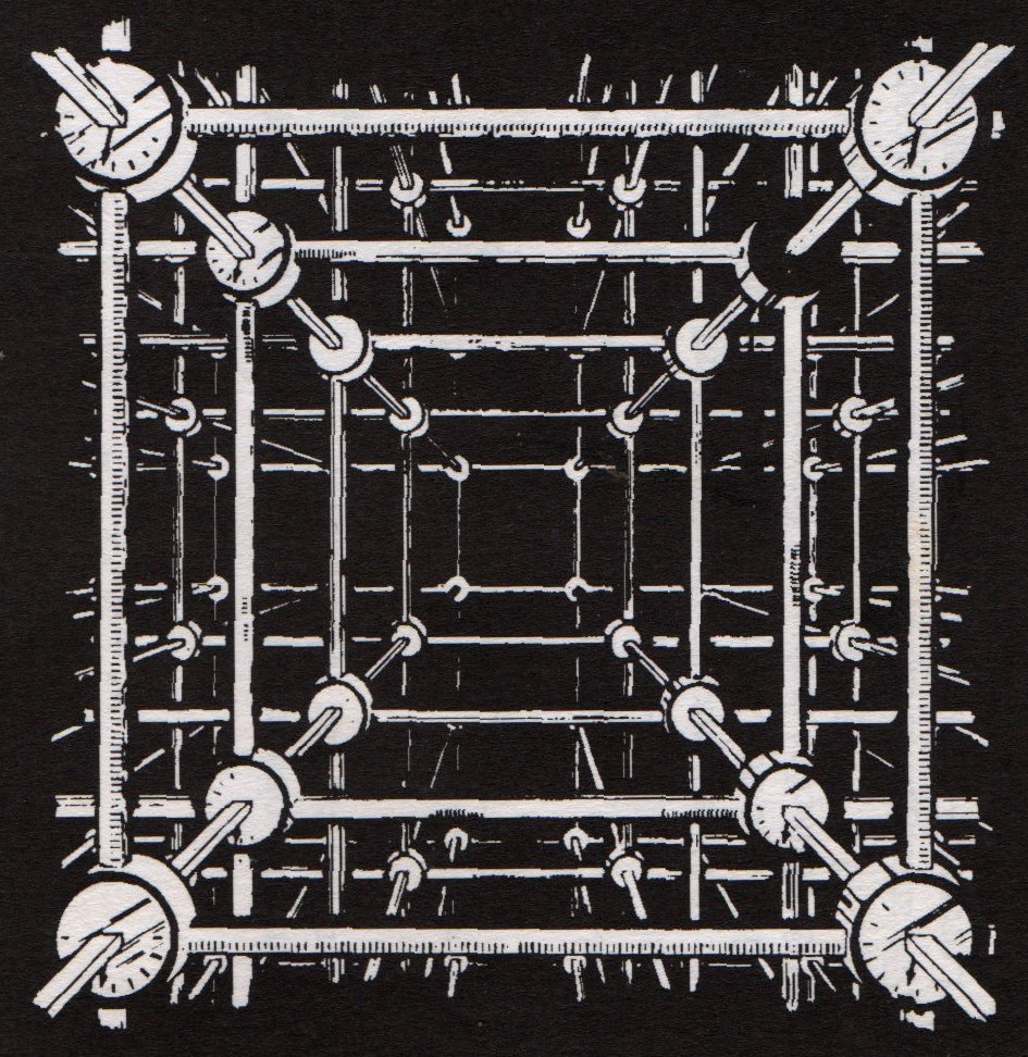 Spacetime network.